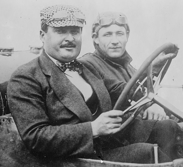 French racecardriver Albert Guyot (1881-1947)